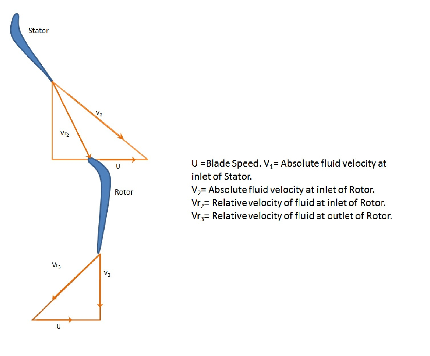 velocity triangle the relating the inlet and exit velocity of fluid flowing through the stage in a turbine.